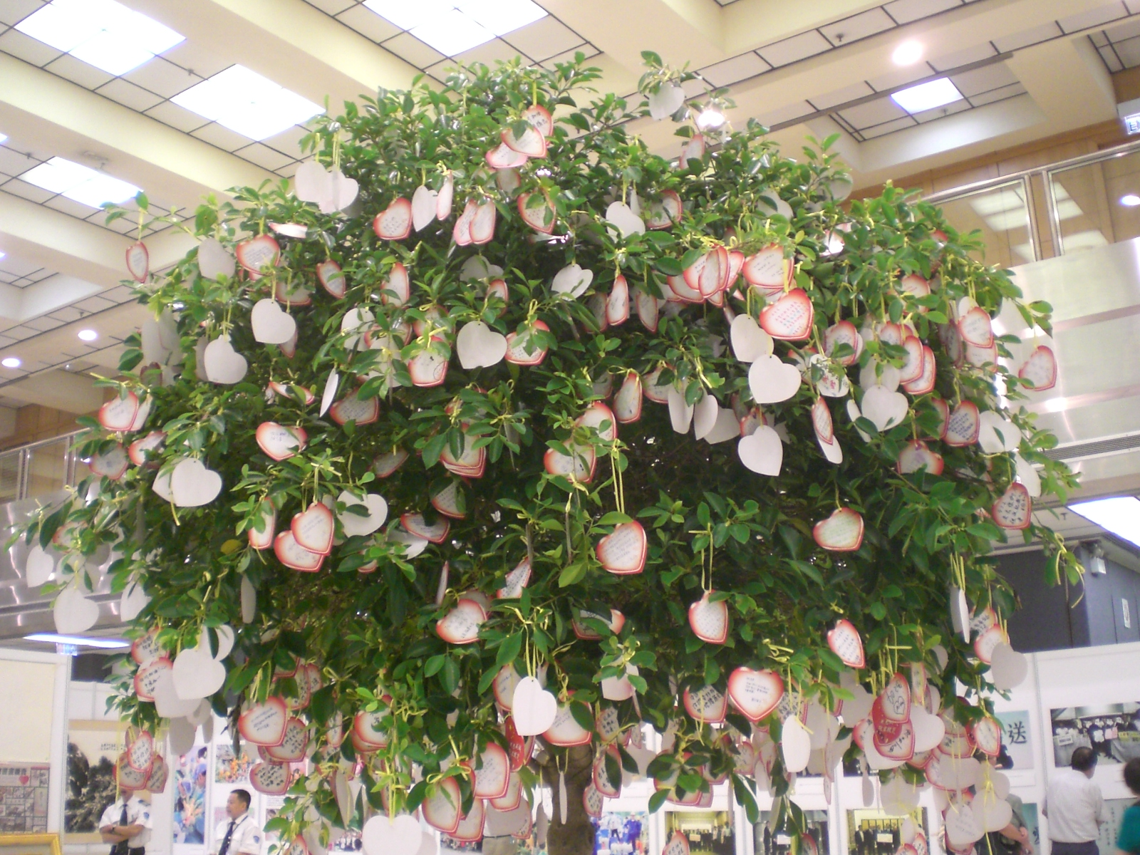 灣仔北會議道香港展覽中心en:Wish Tree許願樹